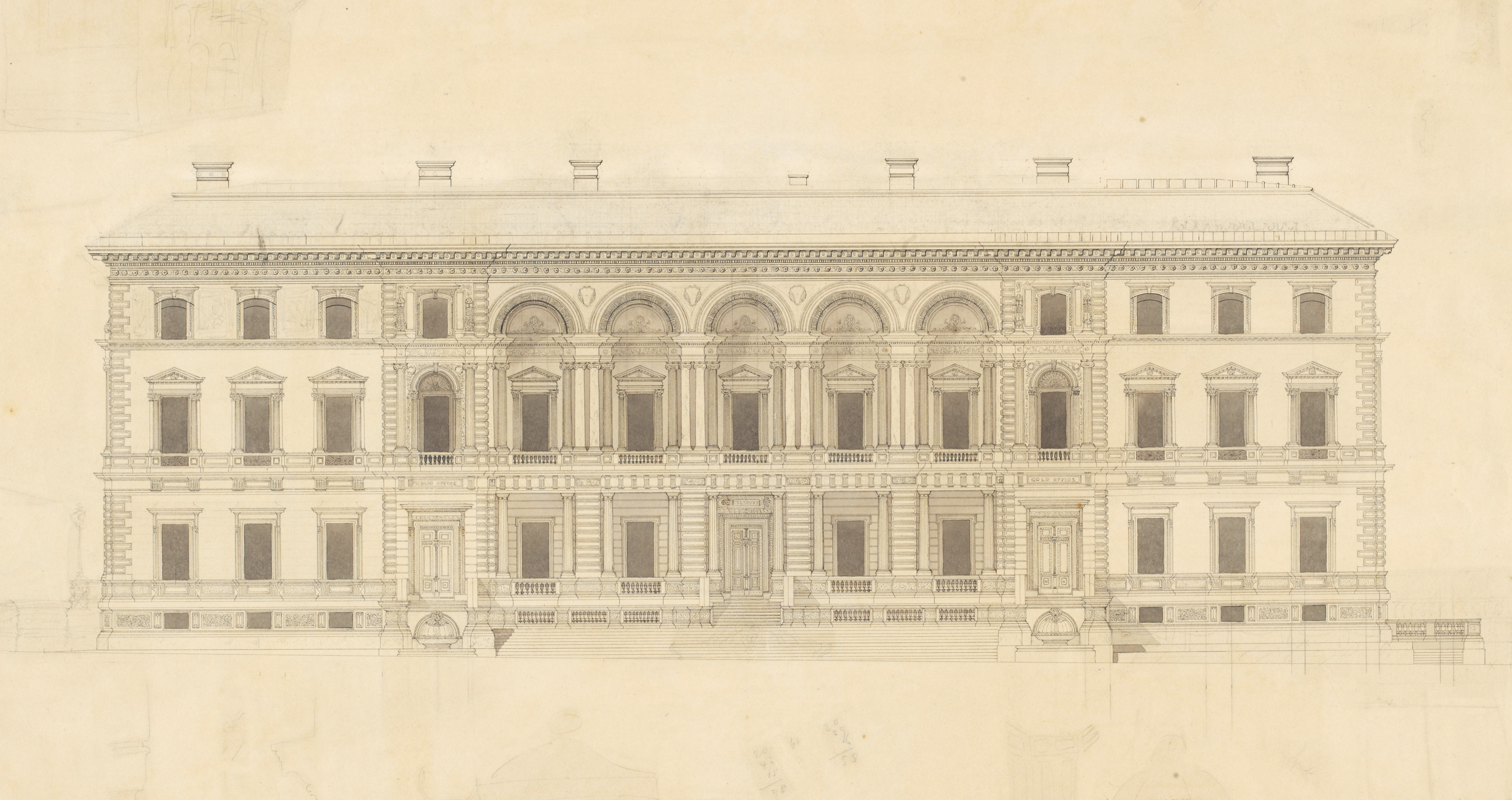 Main facade of the Old Treasury Building, Melbourne. Architectural drawing: ink, pencil on tracing paper and cartridge paper.